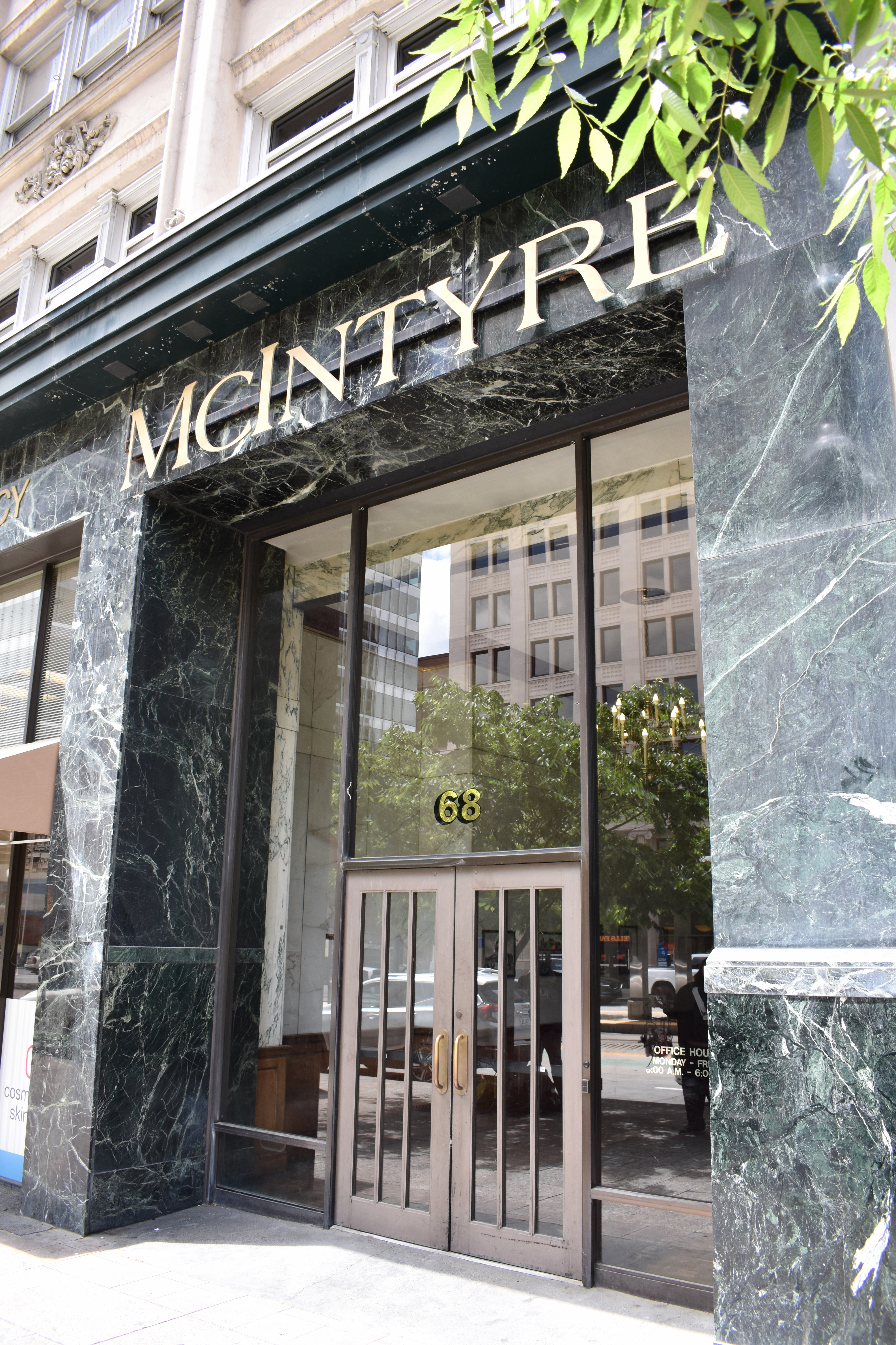 The McIntyre Building (1910) in Salt Lake City is listed on the National Register of Historic Places.